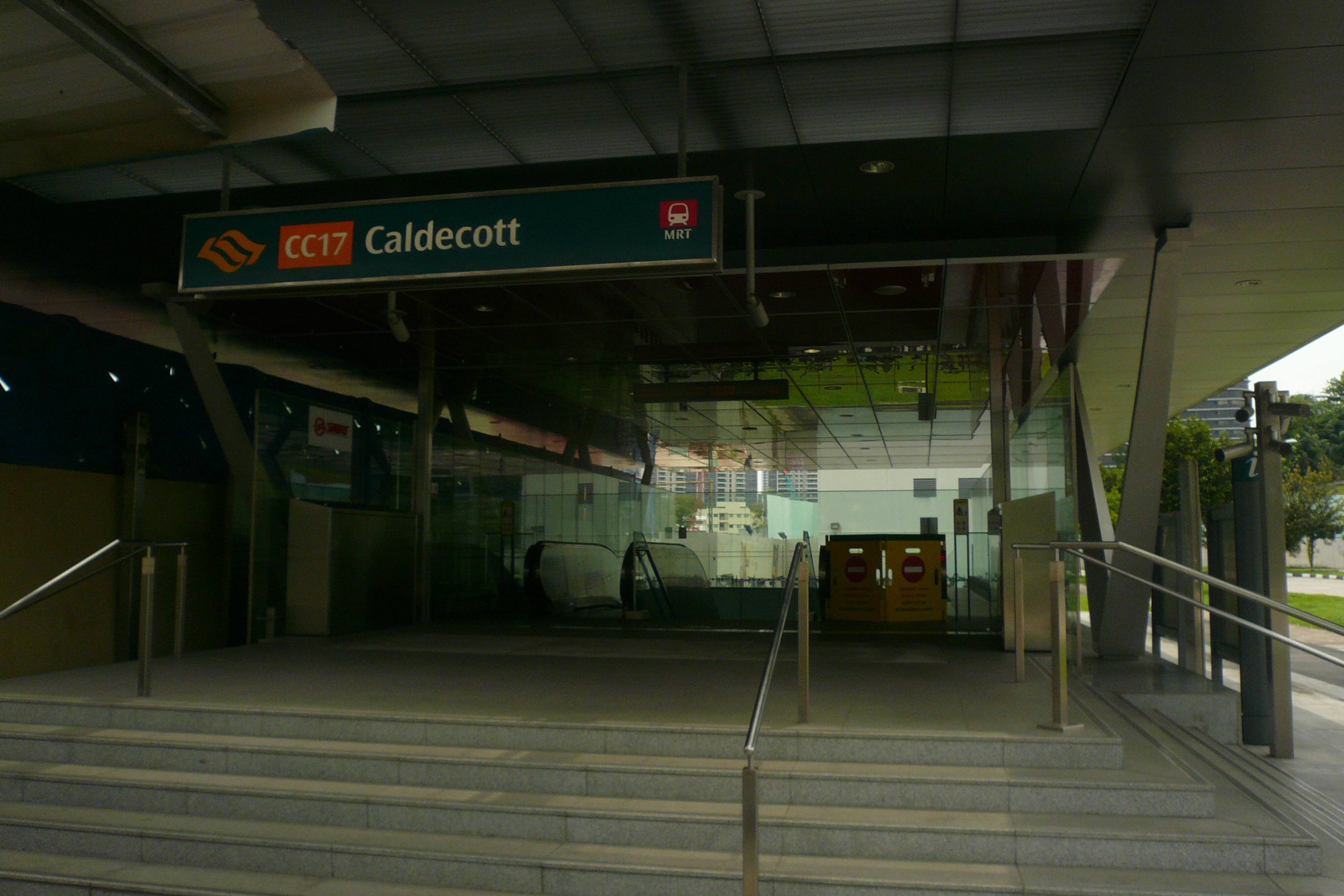 Exit A of Caldecott Station